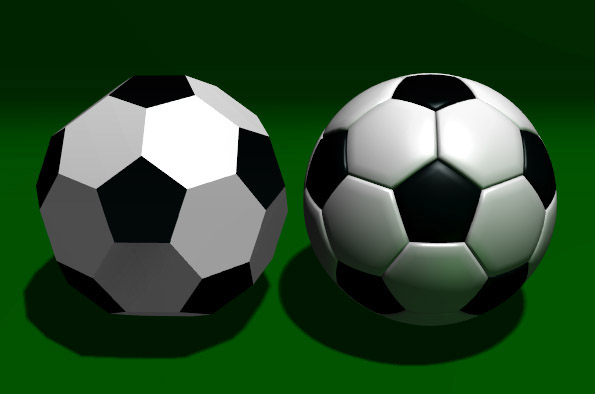 A truncated icosahedron (left) compared to a football/soccer ball.